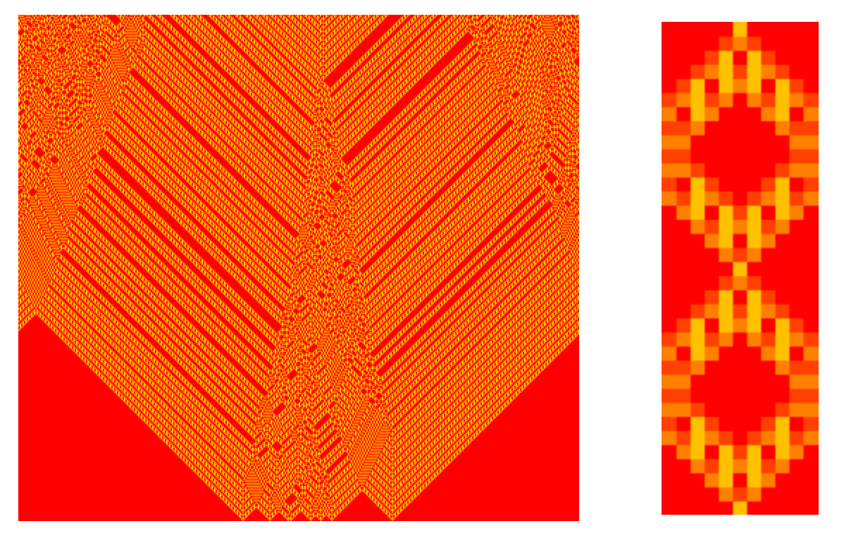 Second order version of ECA 54